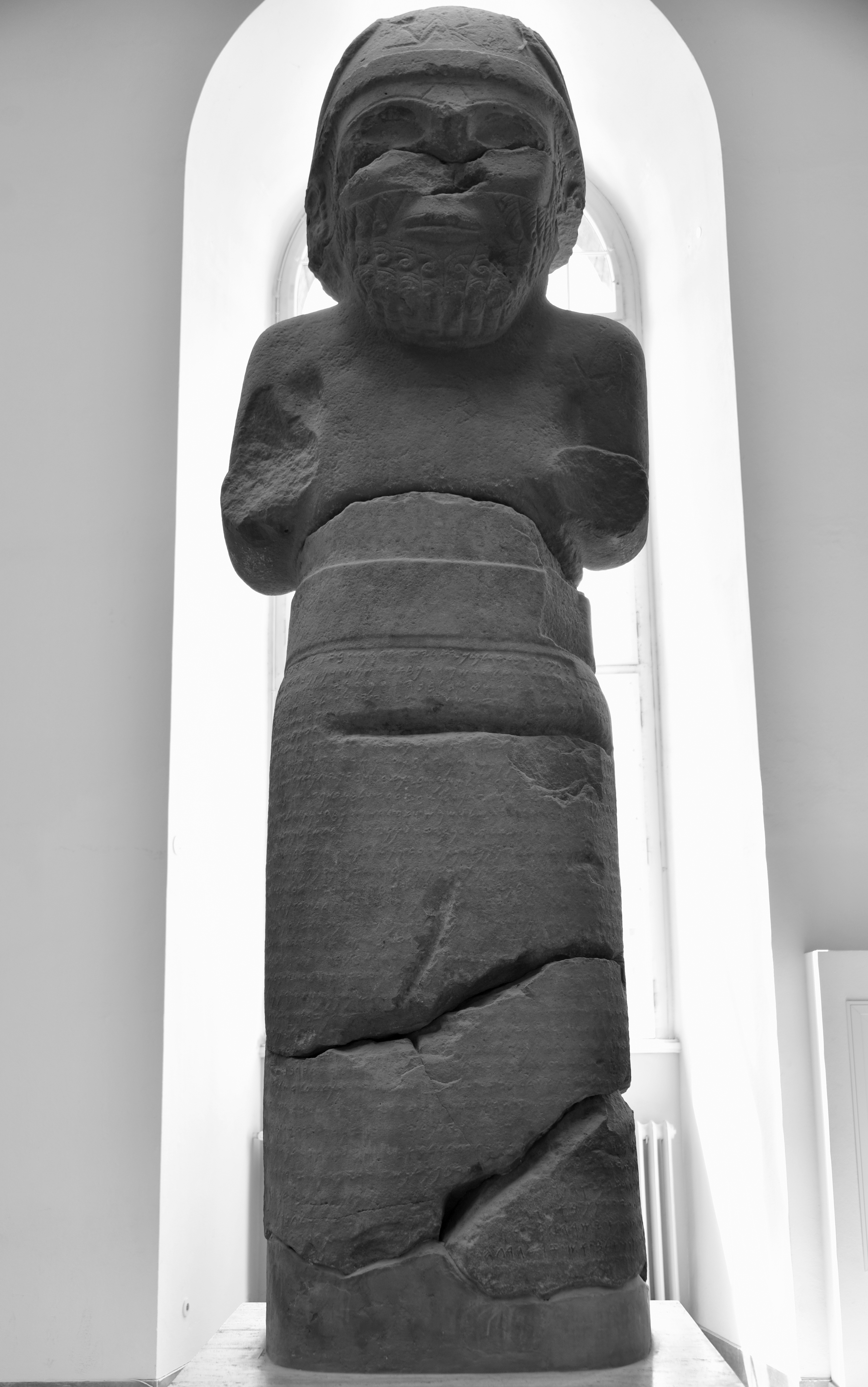 Basalt colossal statue of Hadad, the Hittite god of weather. Erected by Panamuwa. The Aramaic inscription on the lower torso reads at the beginning "I'm Panamuwa, the son of QRL, the King of Ja'udi, I have erected this statue of Hadad, at my eternal grave". From Gerdshin near Sam'al, Turkey. 775 BCE. Pergamon Museum, Berlin, Germany.